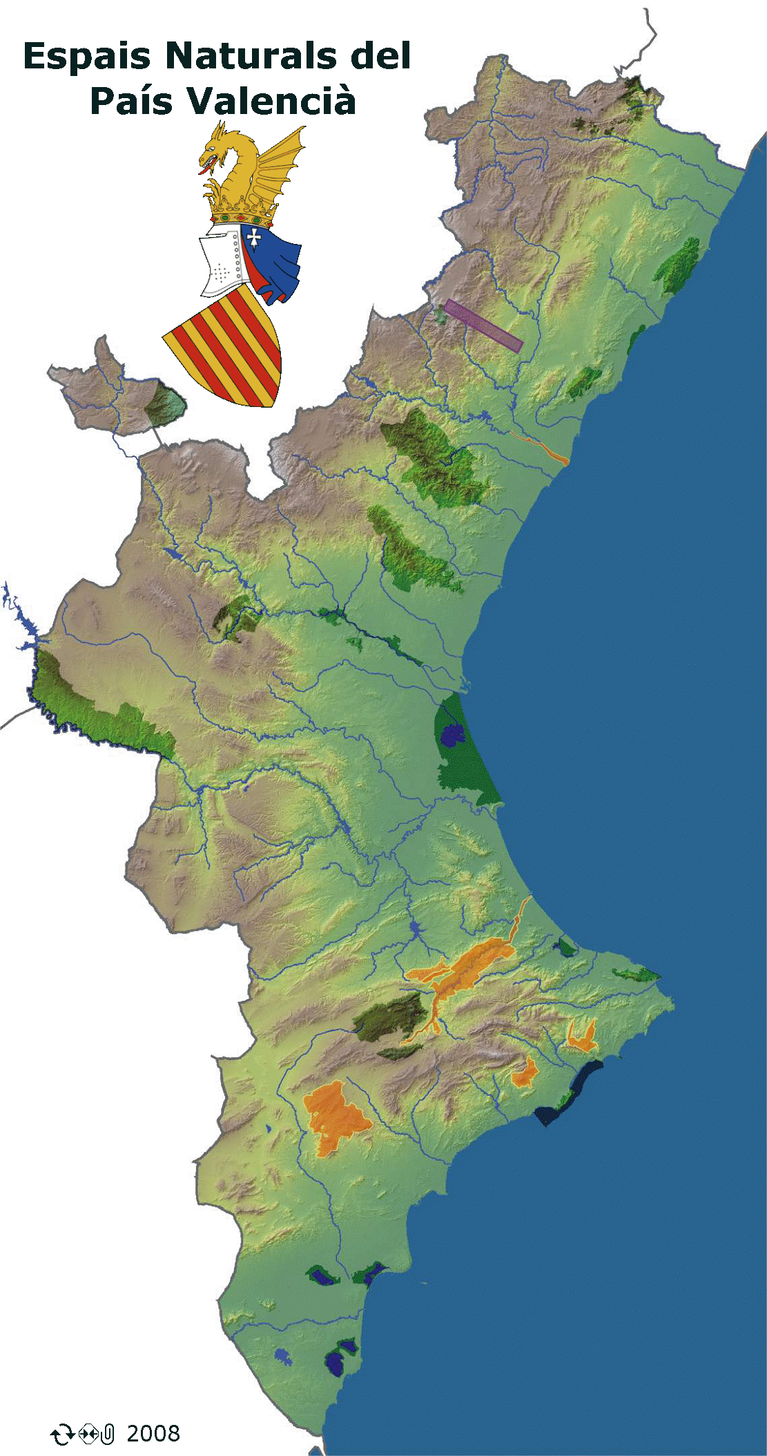 Natural Parks in the Land of Valencia.